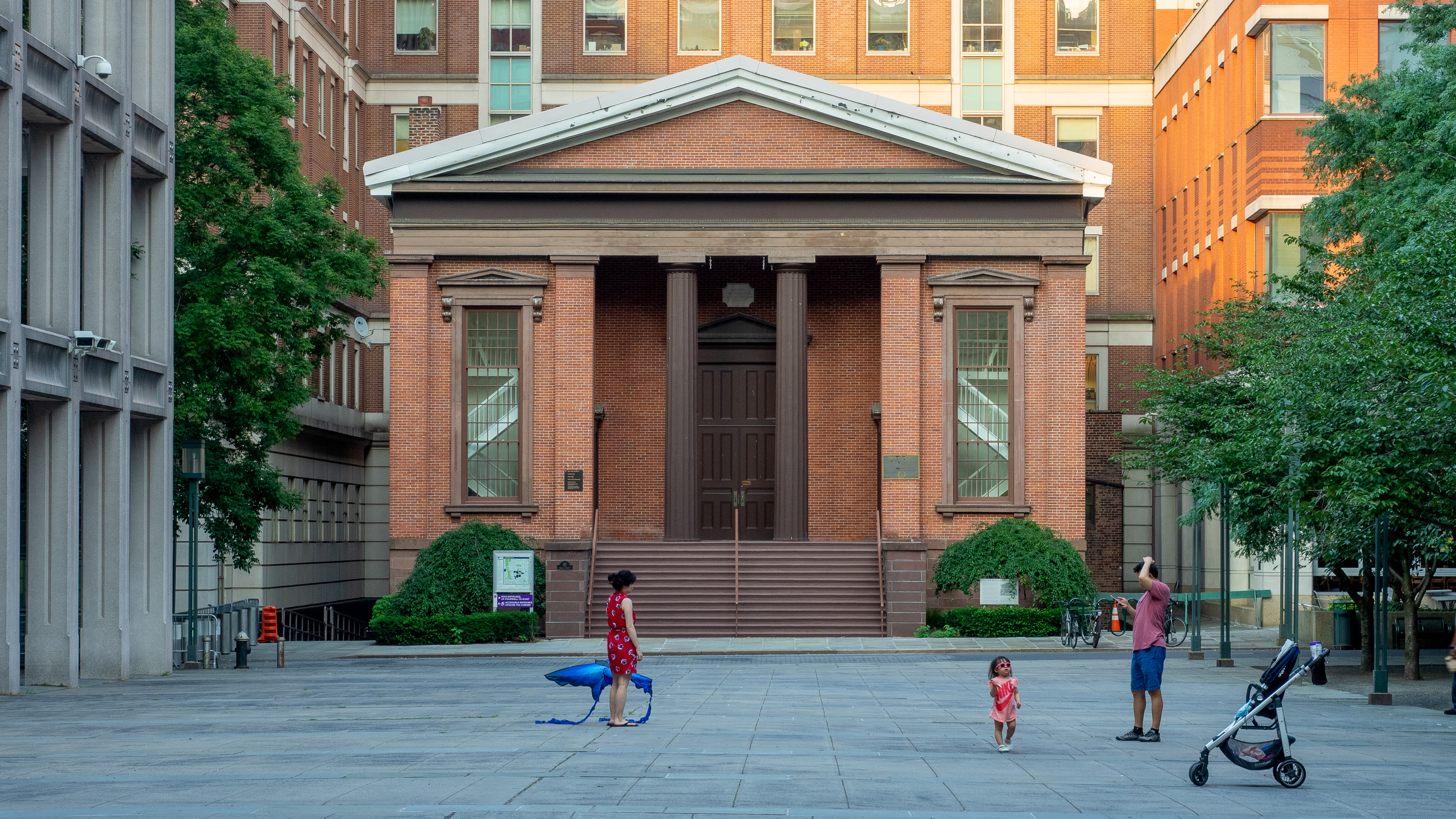 Downtown Brooklyn, Brooklyn, New York City